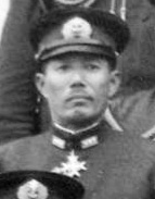 Shikazou Yano is an Imperial Japanese Navy Vice Admiral